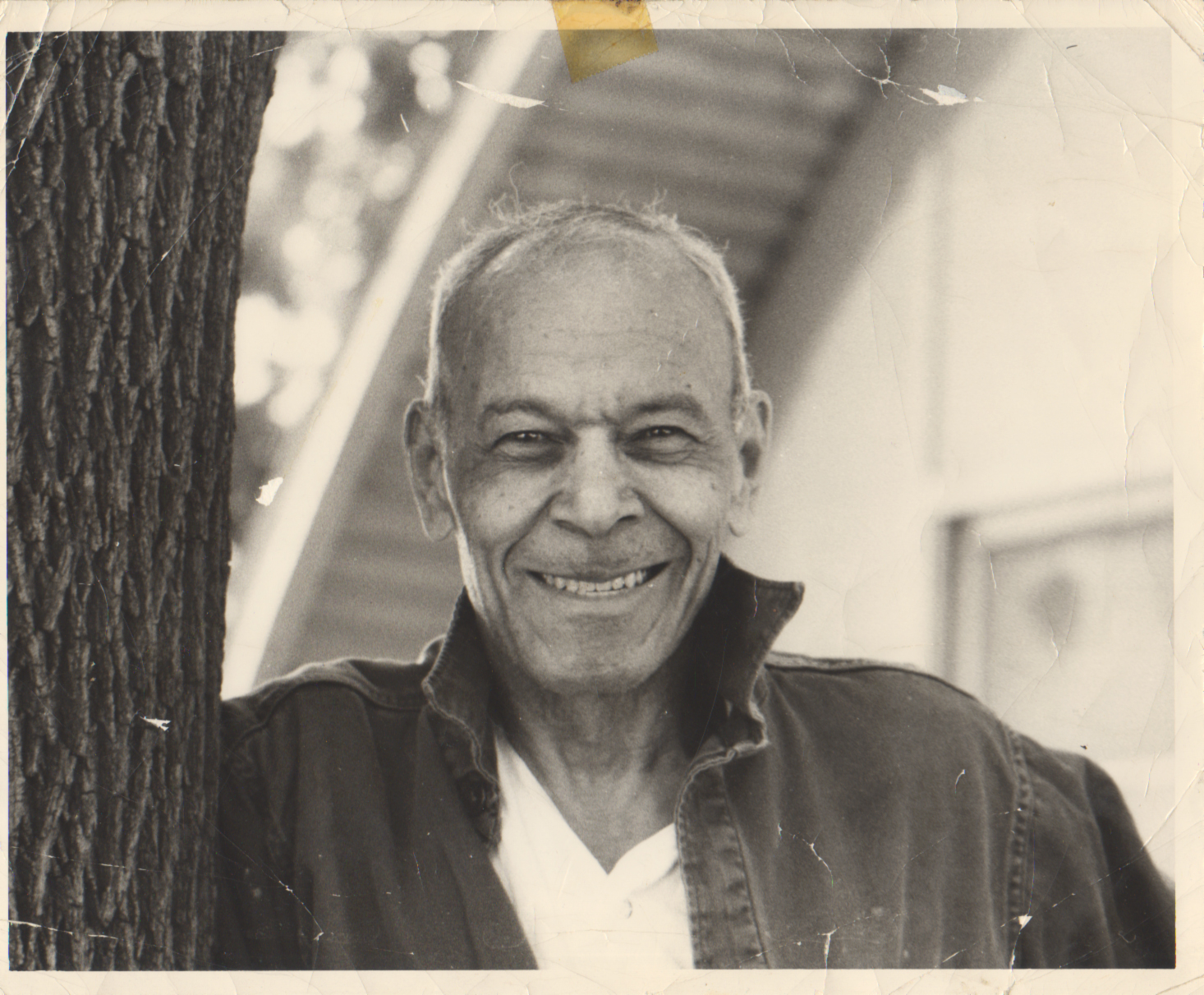 photo of an elder cap